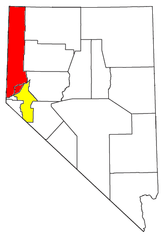 Locator map of the Reno-Sparks-Fernley Combined Statistical Area in the western part of the U.S. state of Nevada. The two components of the CSA are colored separately: Reno-Sparks Metropolitan Statistical Area: red Fernley Micropolitan Statistical Area: yellow